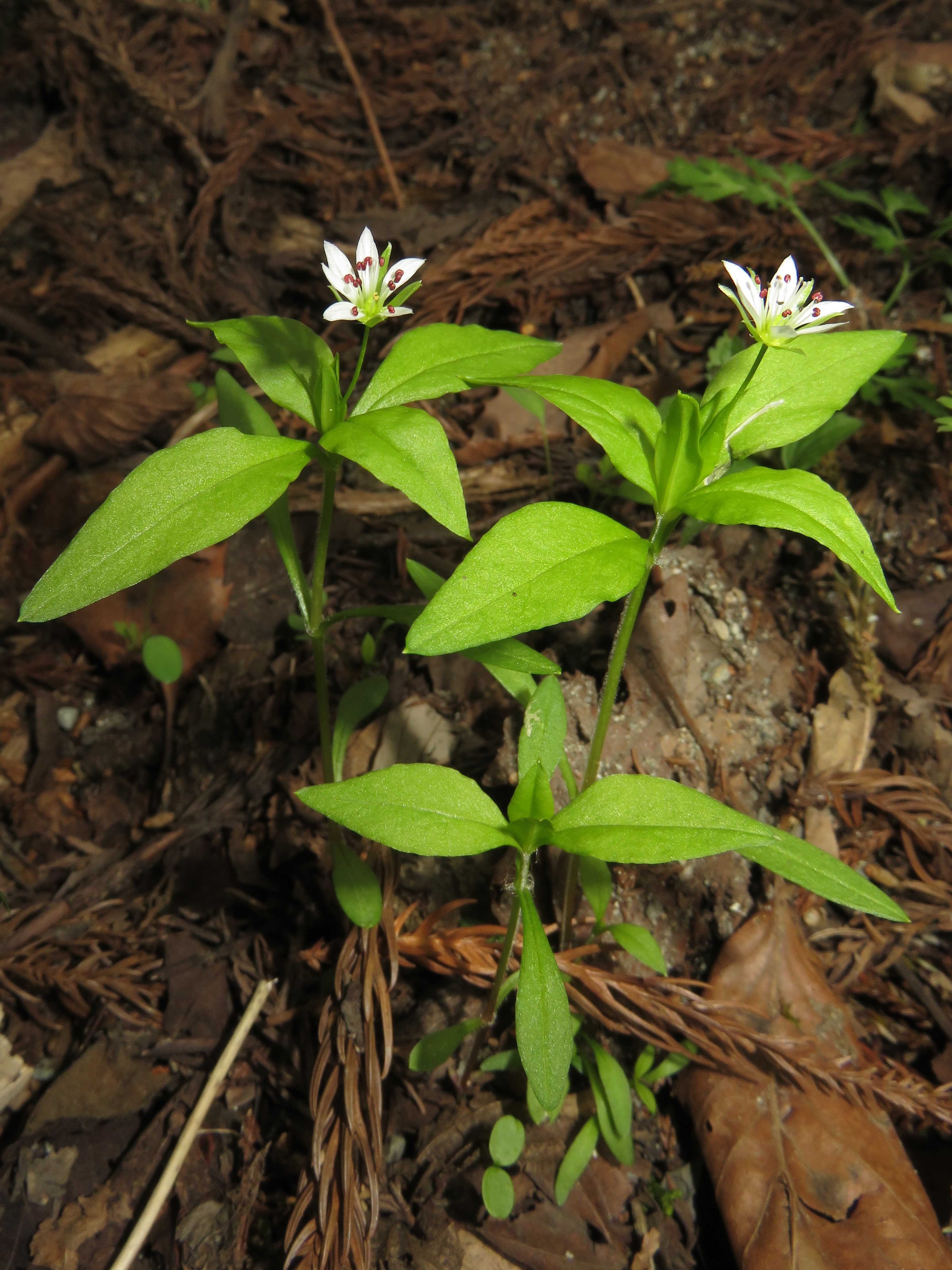 Pseudostellaria palibiniana, North area, Tochigi pref., Japan